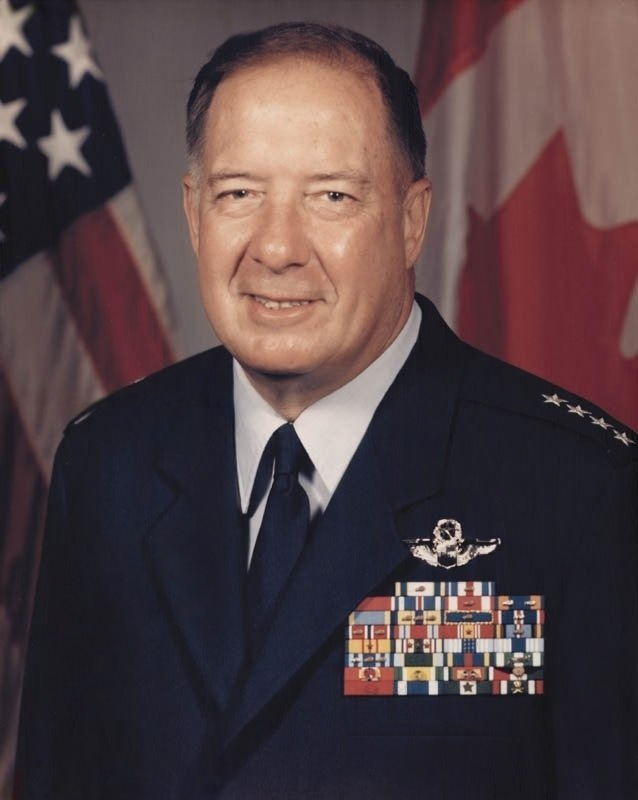 General Chuck Horner. Official U.S. Air Force photo.